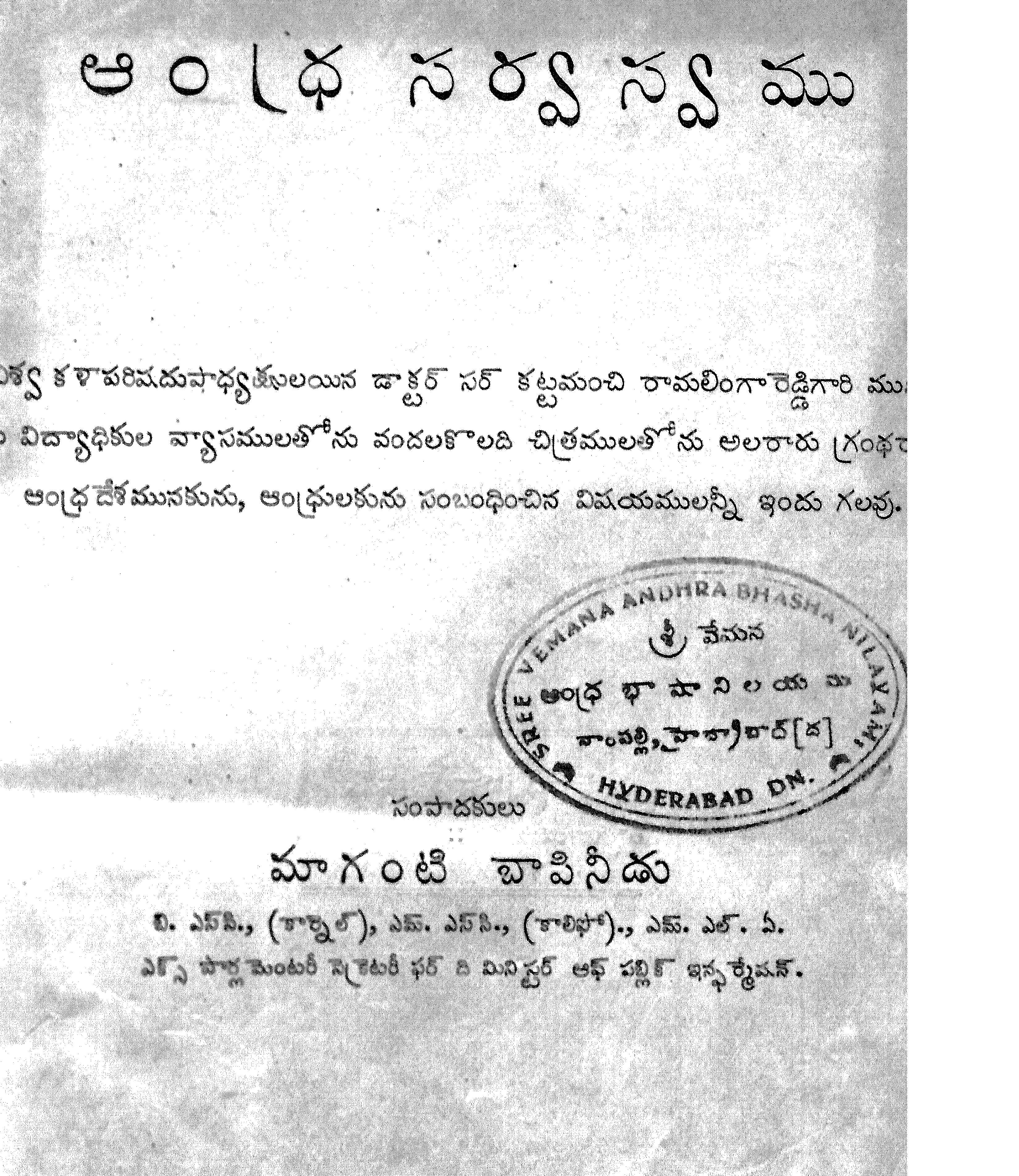 Andhra Encyclopaedia